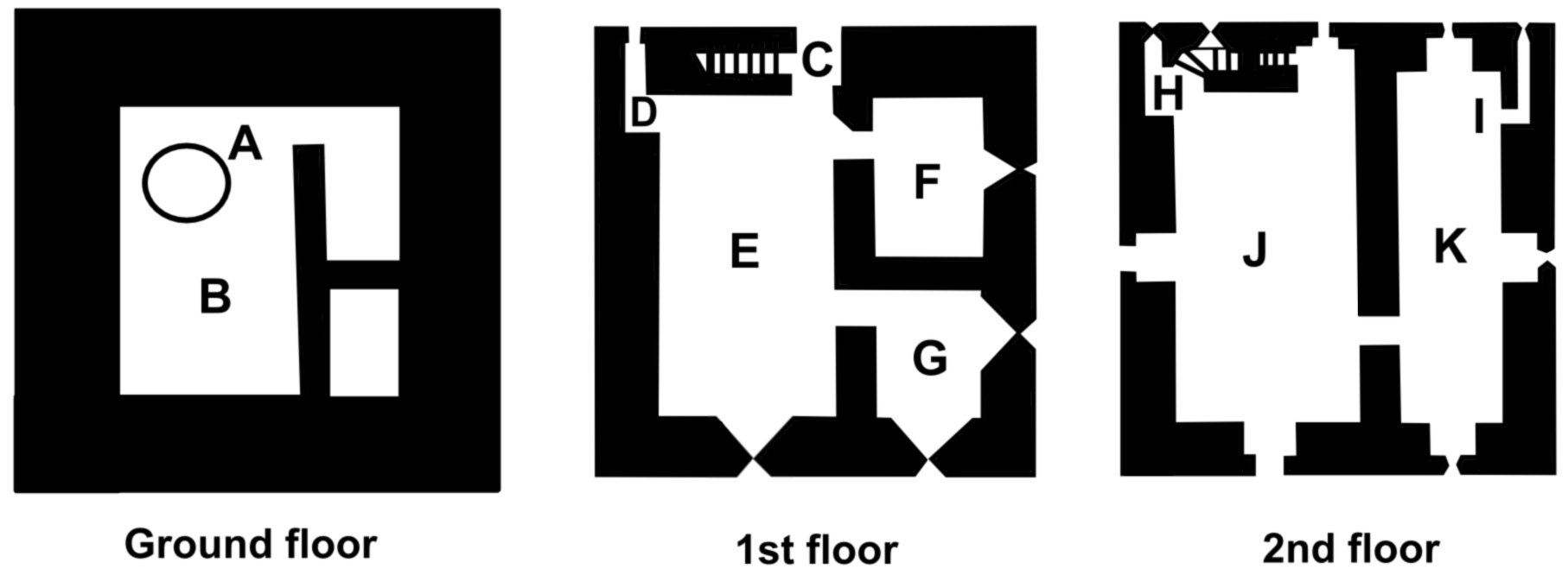 Modern plan of Lydford Castle, after Andrew Saunders (1980)